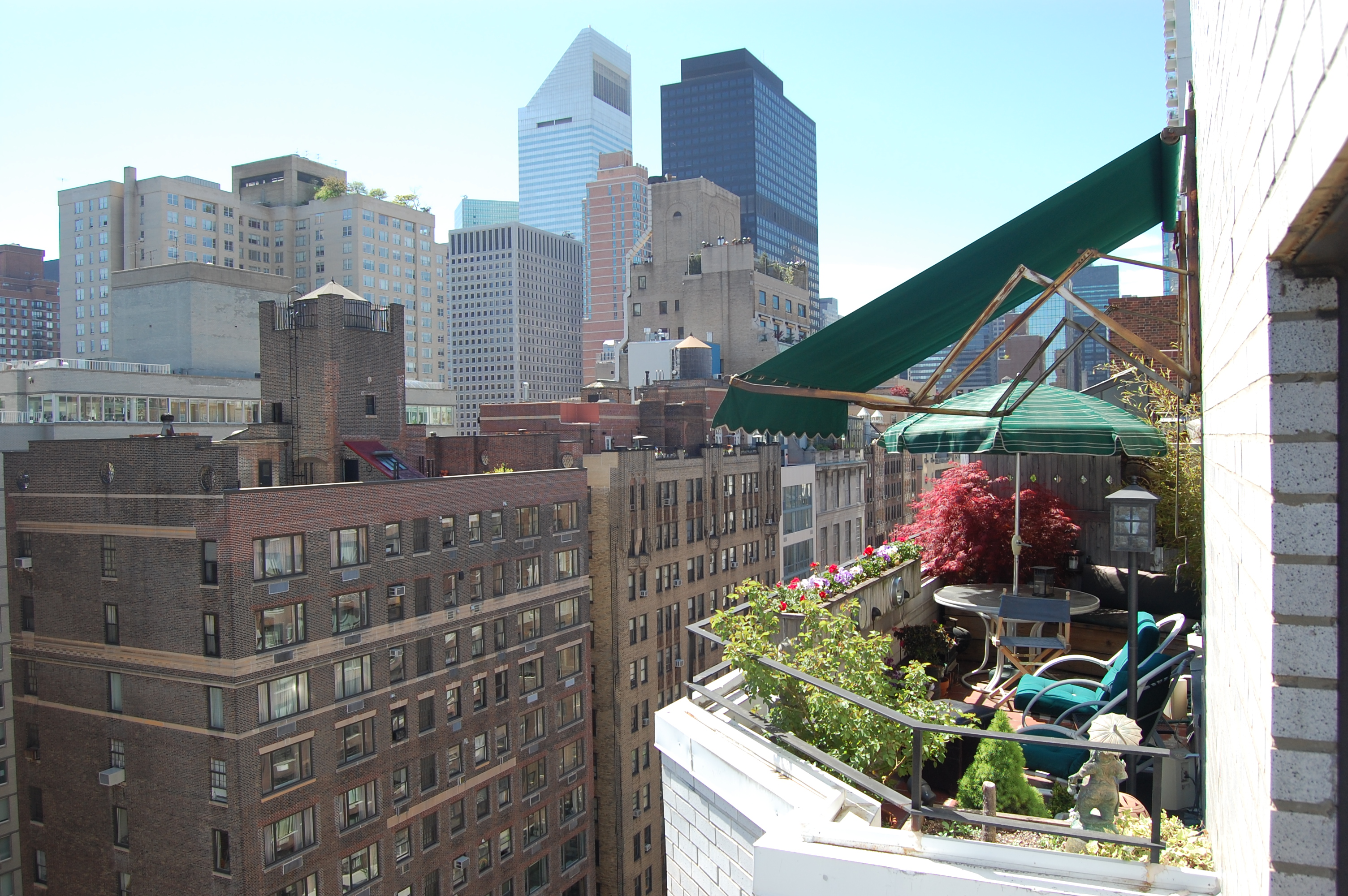 A planted terrace on the 19th floor of an apartment building on East 57th Street in New York City.